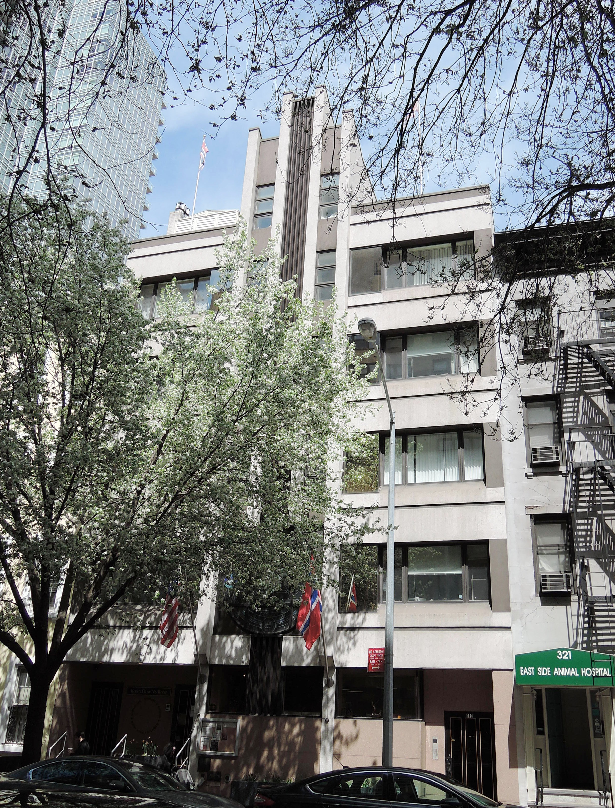 Looking north at Norwegian Church on a partly sunny midday.